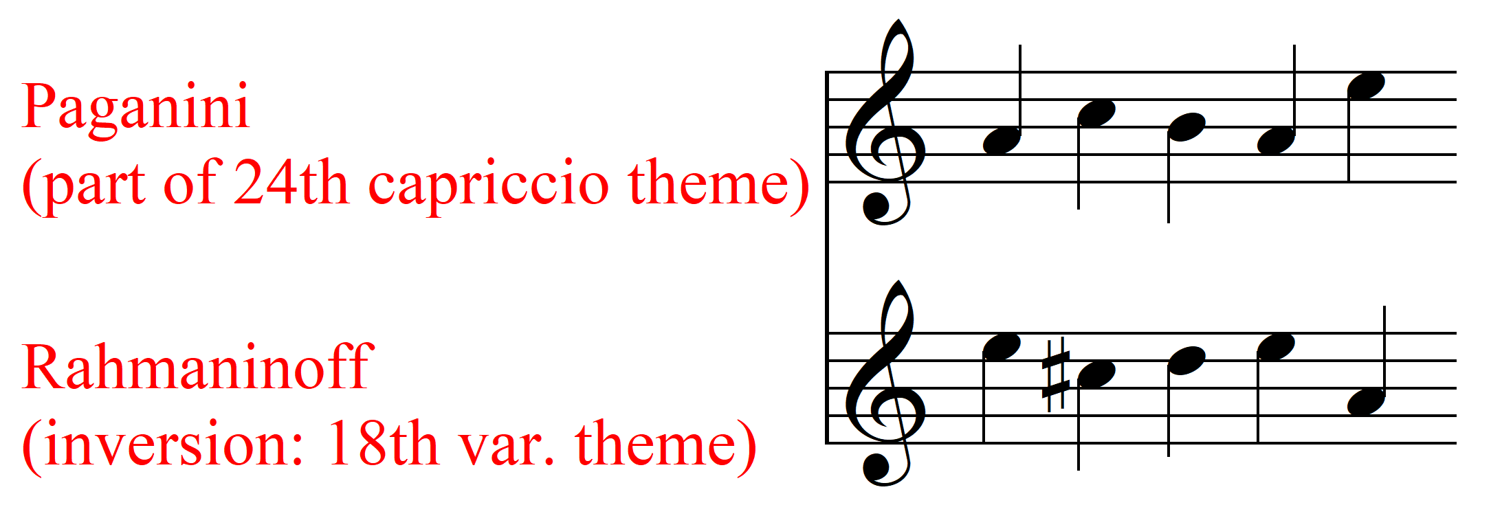 Inversion of Rachmaninov Paganini Rhapsody theme